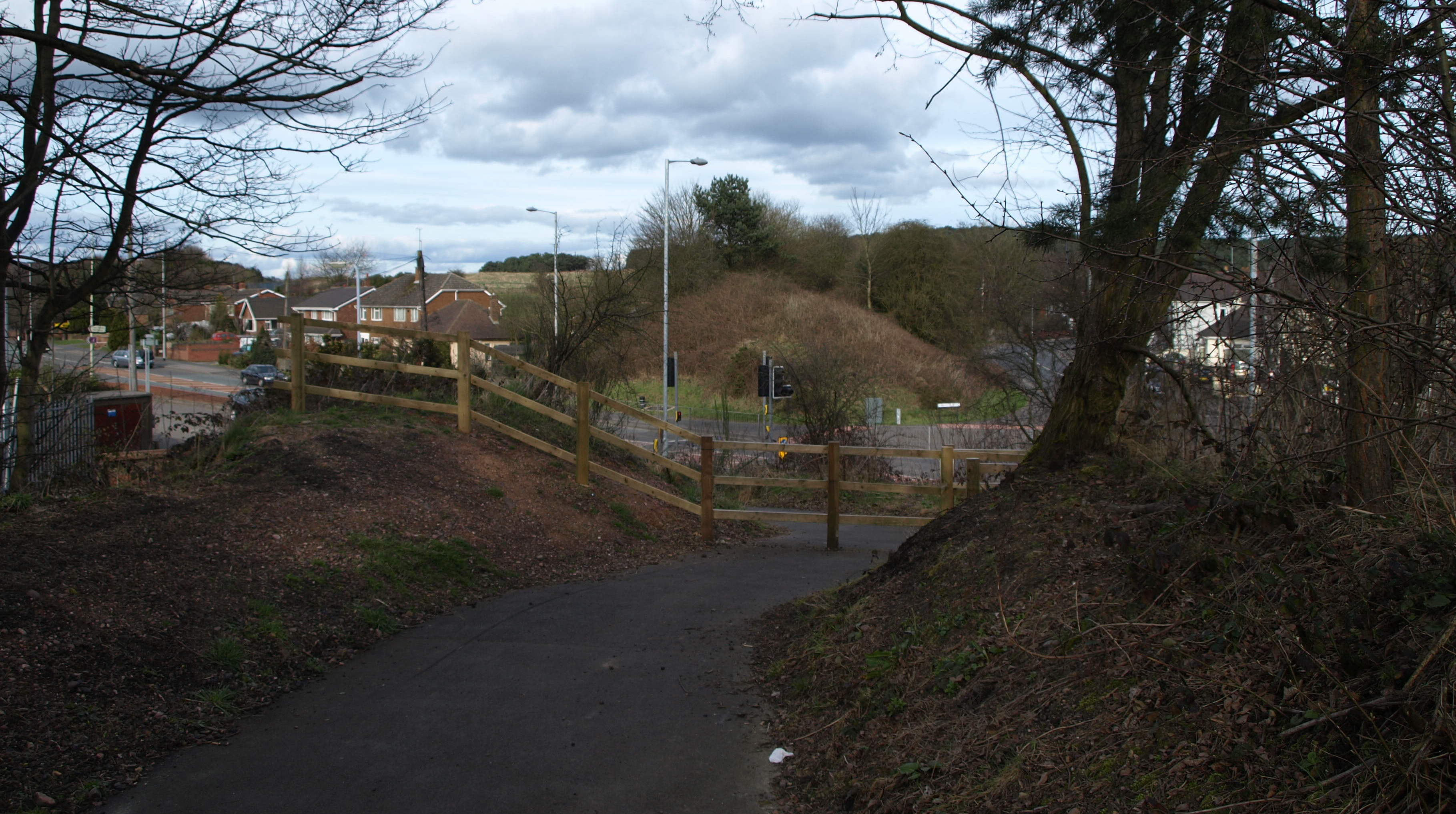 Footpath on former mineral railway at Hednesford. Standing on the trackbed of the former mineral line leading from Hednesford to Cannock Wood and Chase Terrace, looking over the Hednesford to Rugeley Road. The continuation of the embankment can be seen on the far side of the road. A rather narrow road bridge carried the track over the road, no doubt removing an annoying bottleneck when demolished, probably at the end of the 1970's